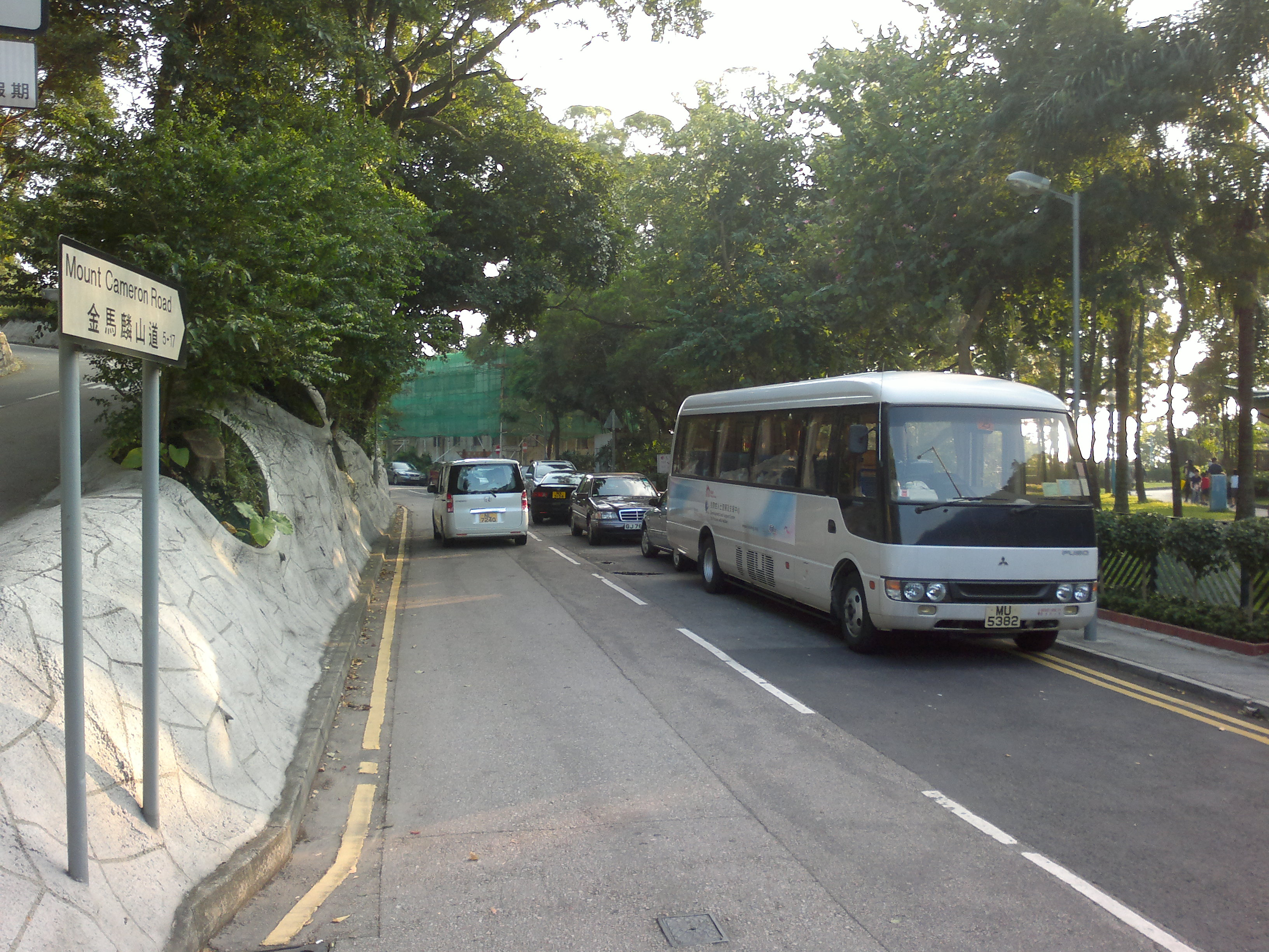 Mount Cameron Road at Wan Chai Gap